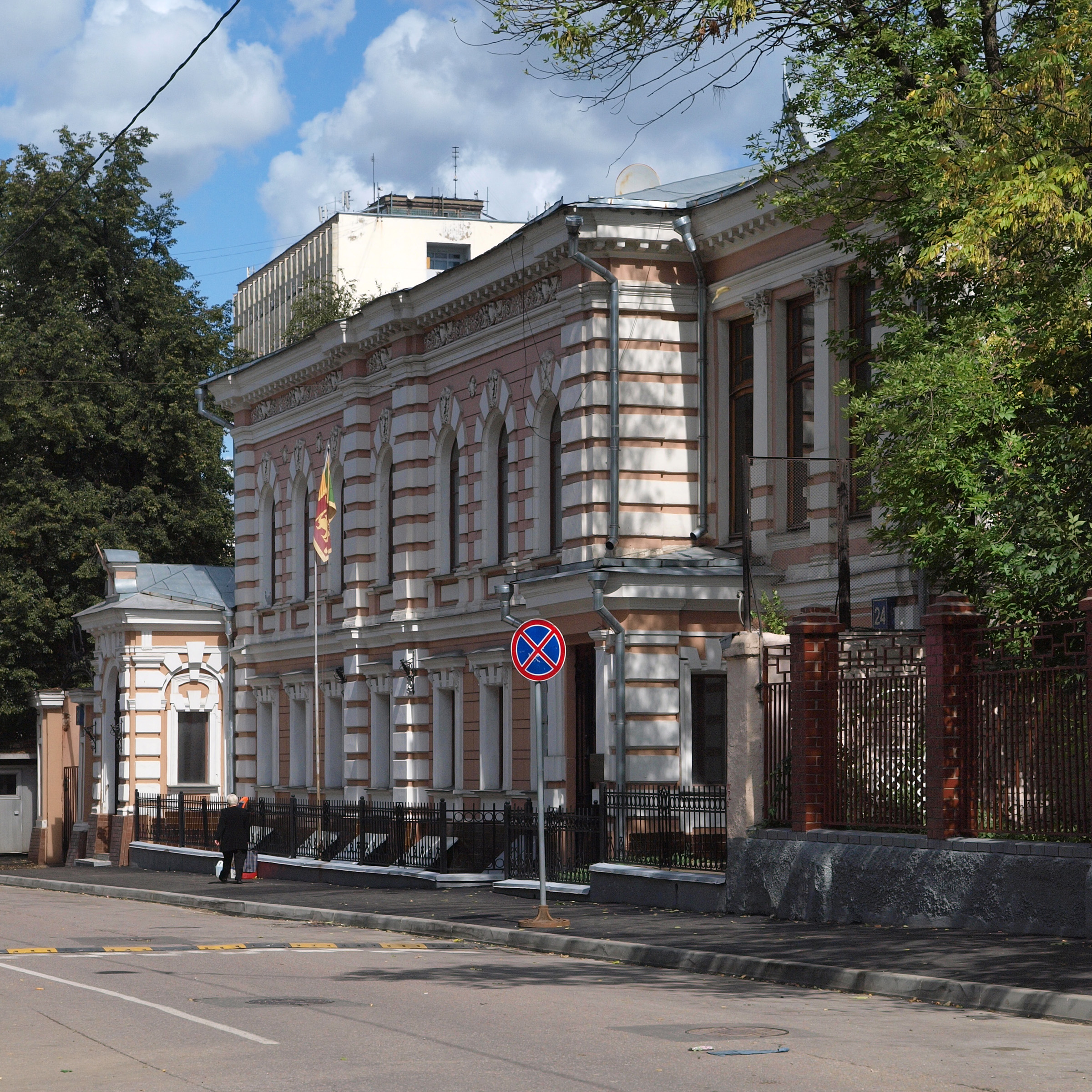 Embassy of Sri Lanka in Moscow